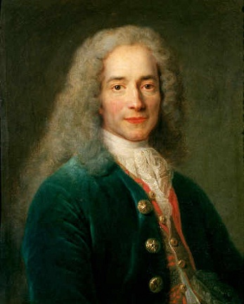 Depicted person: François-Marie Arouet (1694–1778), known as Voltaire, French Enlightenment writer and philosopher